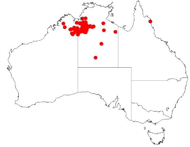 Acacia leptophleba Occurrence data from Australasia Virtual Herbarium downloaded from on 8 December 2018